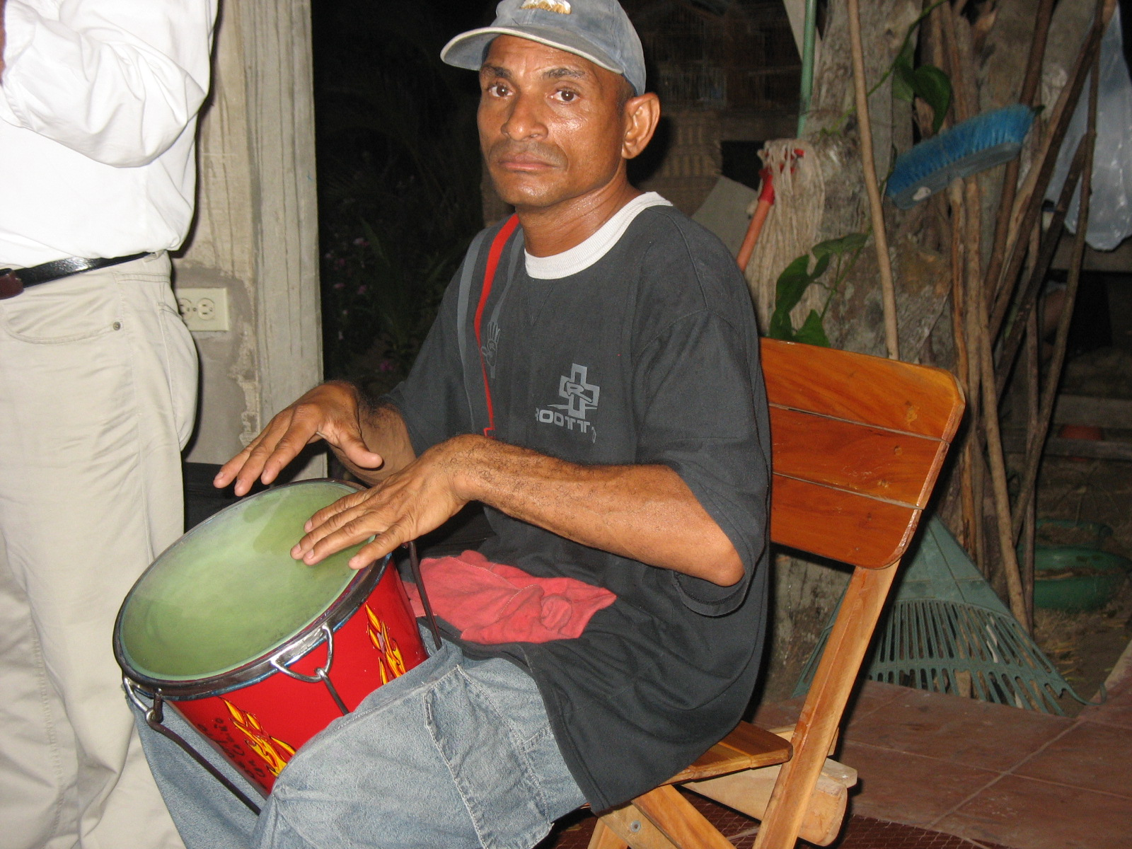 Cajero vallenato